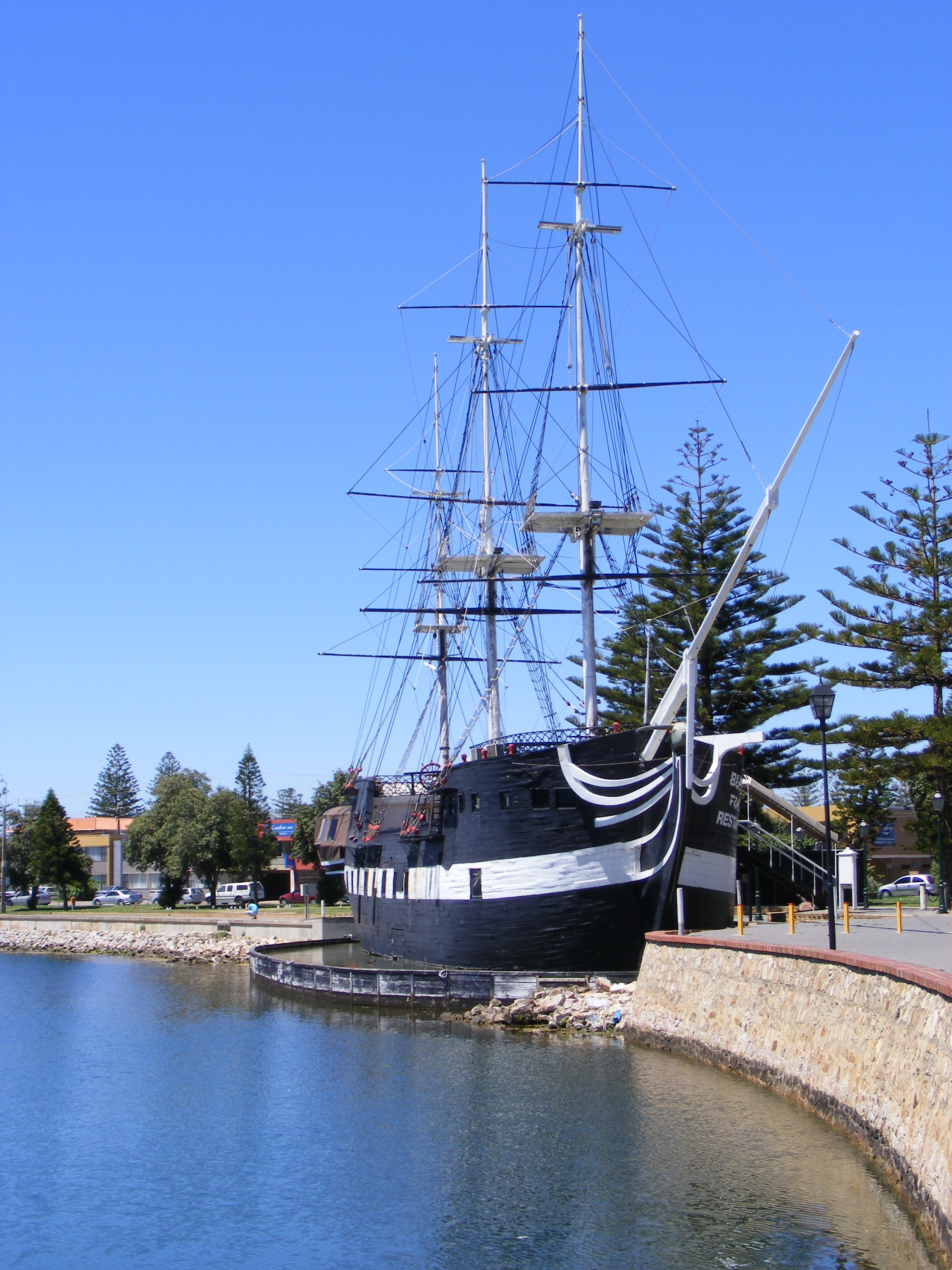 Bow view of the HMS Buffalo restaurant. A scale recreation of 1813 HMS buffalo that brought new colonists to Adelaide, South Australia. The restaurant is in the Patawalonga River, next to Wigley Reserve, Glenelg (a suburb of Adelaide), South Australia